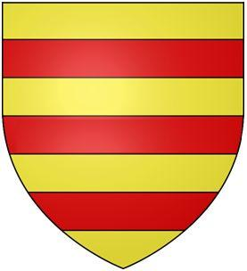 Armorial of Richard Berrie Esq. (d.1645), lord of manor of Berrynarbor, Devon: Or, three bars gules, as depicted on his mural monument in Berrynarbor Church.